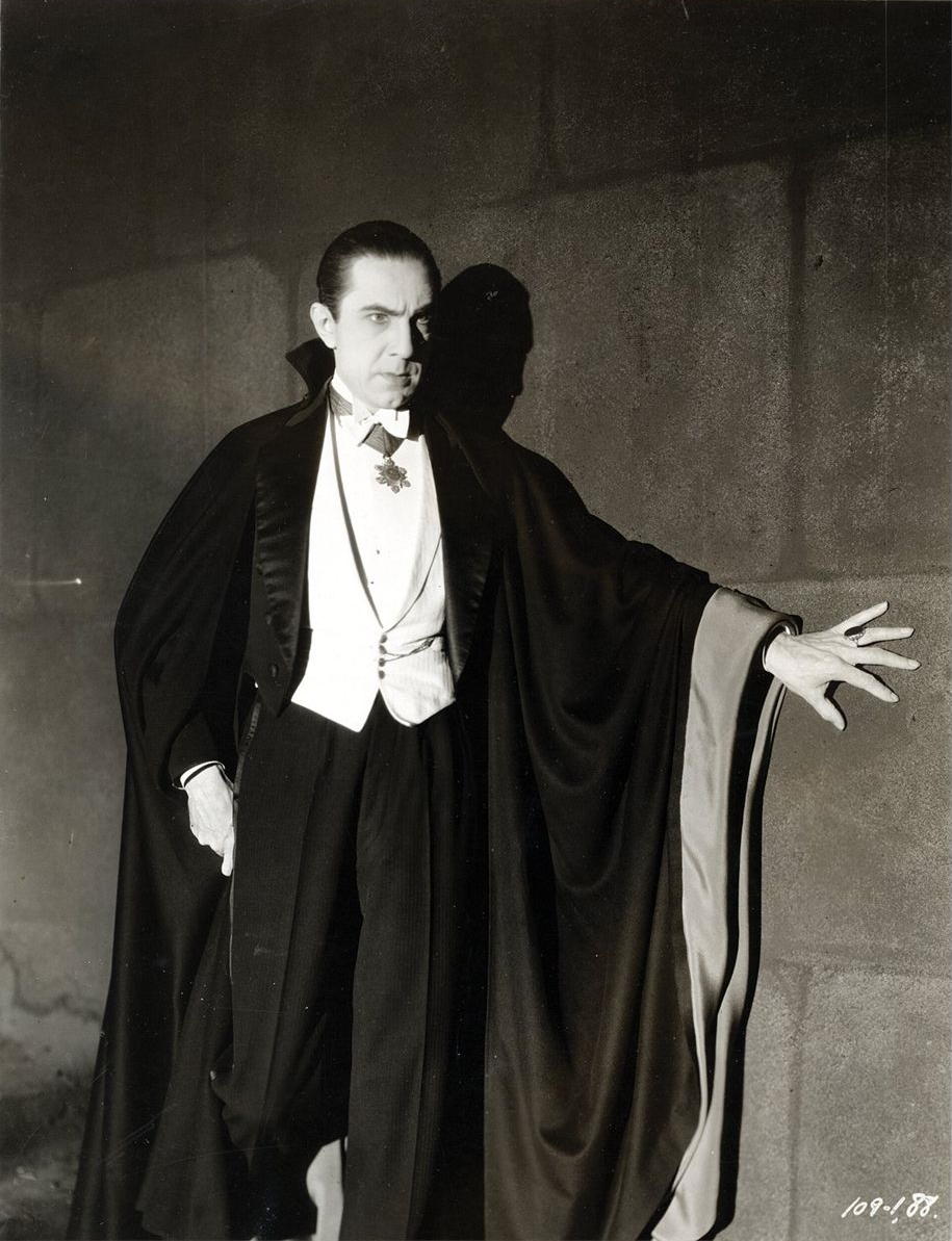 Bela Lugosi as Dracula, anonymous photograph from 1931, Universal Studios